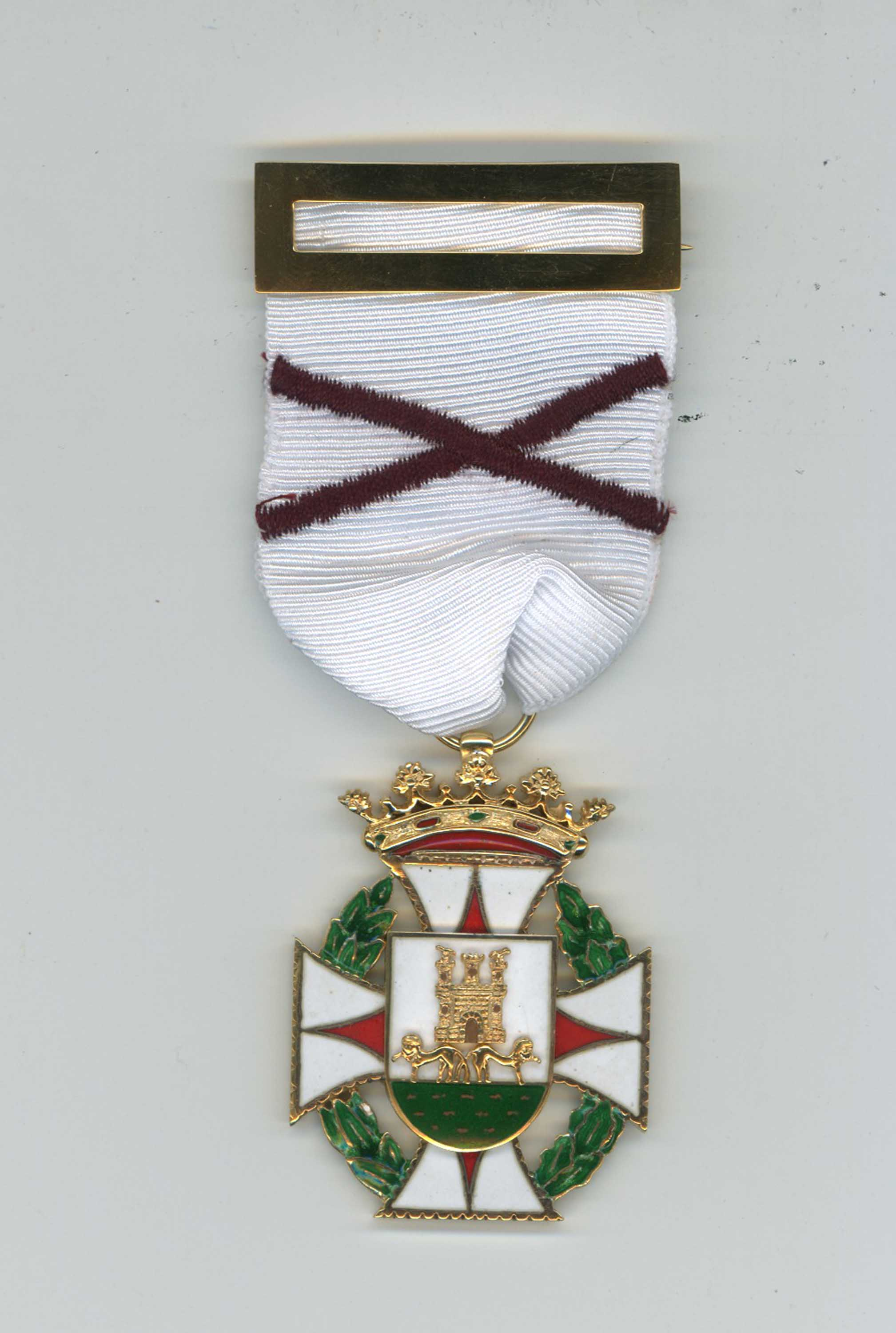 Medal of Vitoria Gasteiz